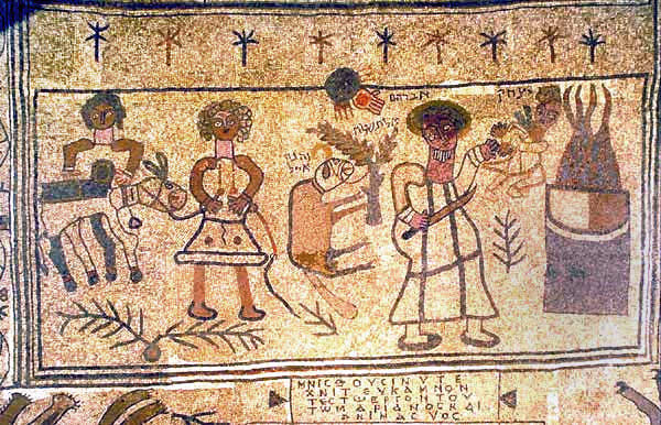 Beth Alpha synagogue.